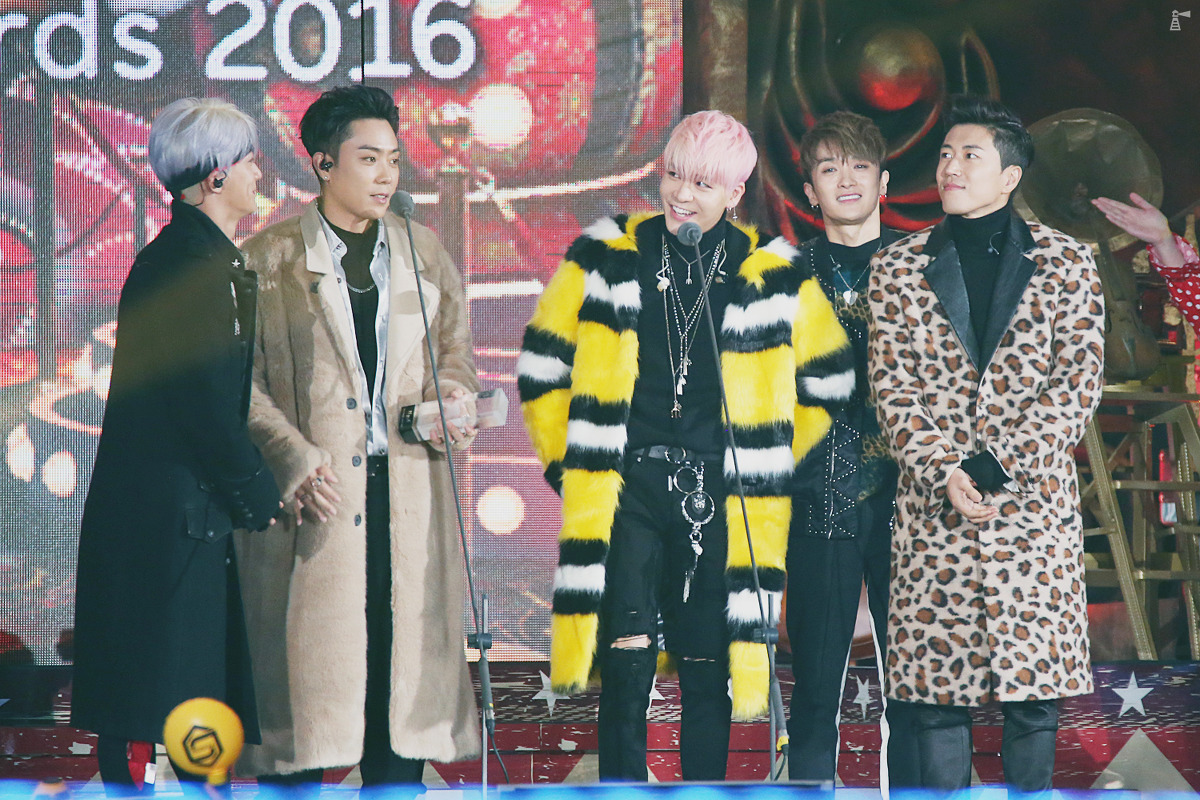 161119 SechsKies at 2016 Melon Music Awards